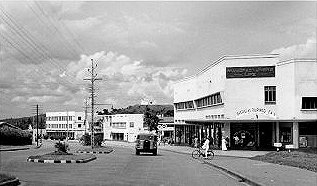 Kampala Road looking towards the station in early 1950s, Kampala, Uganda.